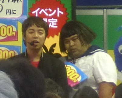 Japanese comedians Hibiki in Akihabara